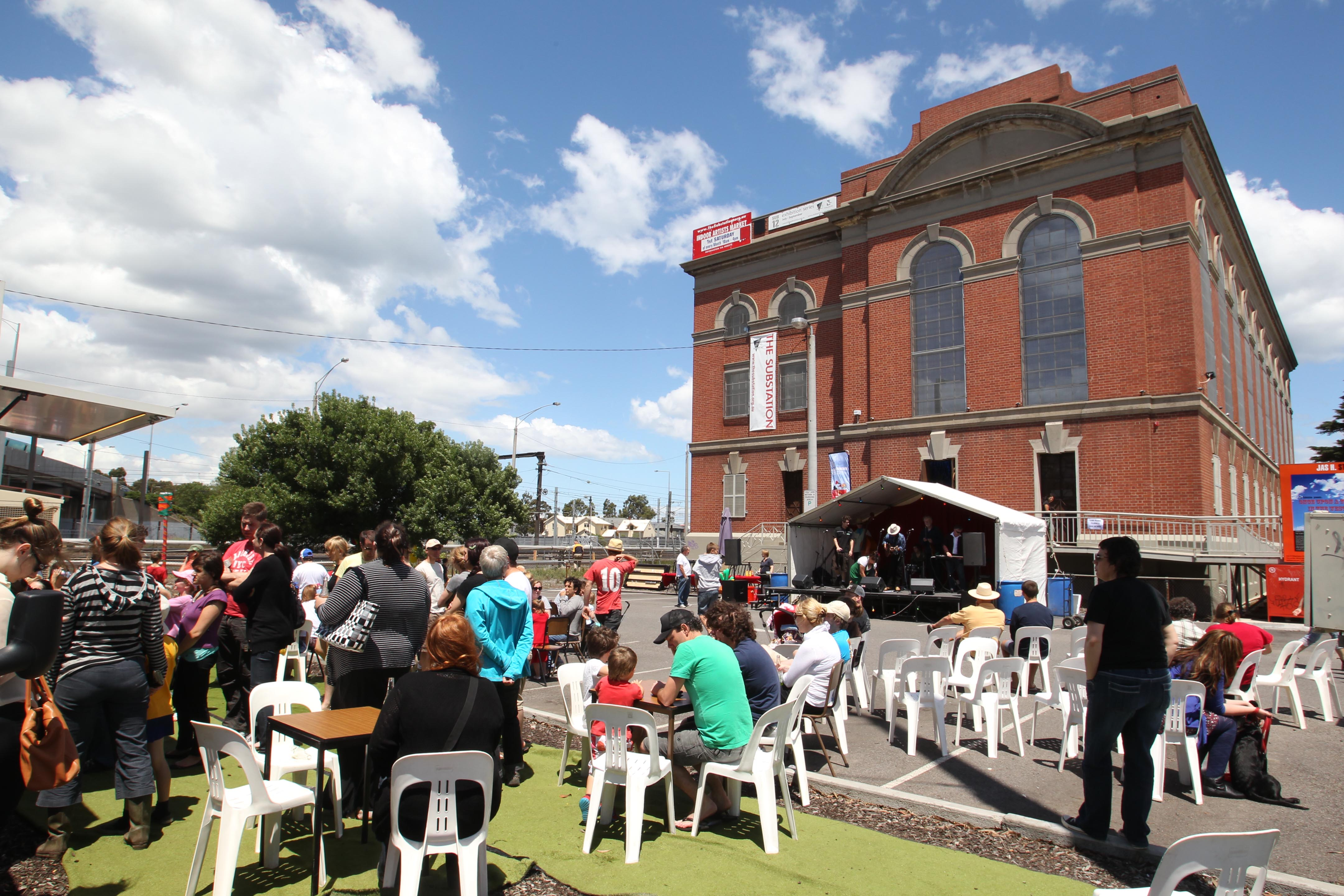 Carpark fiesta at the Substation, Newport, Victoria